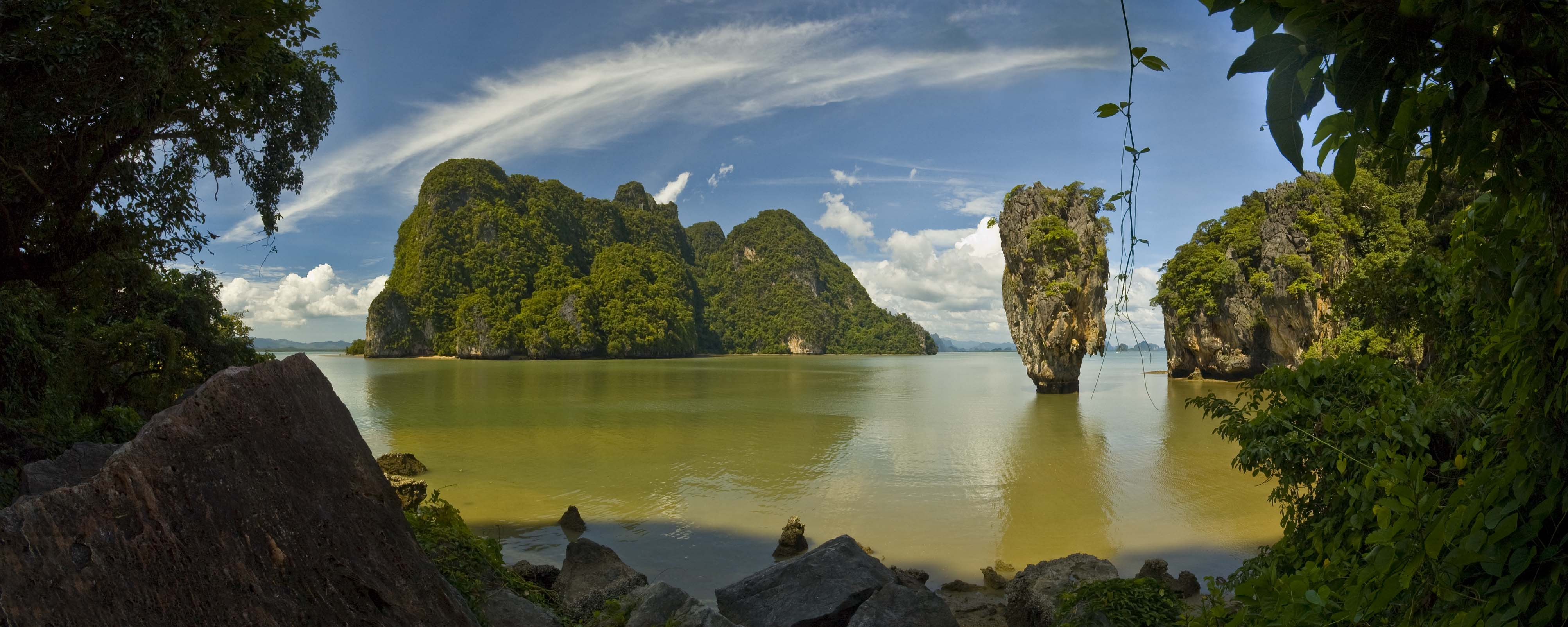 Mushroom rock on James Bond Island, Thailand